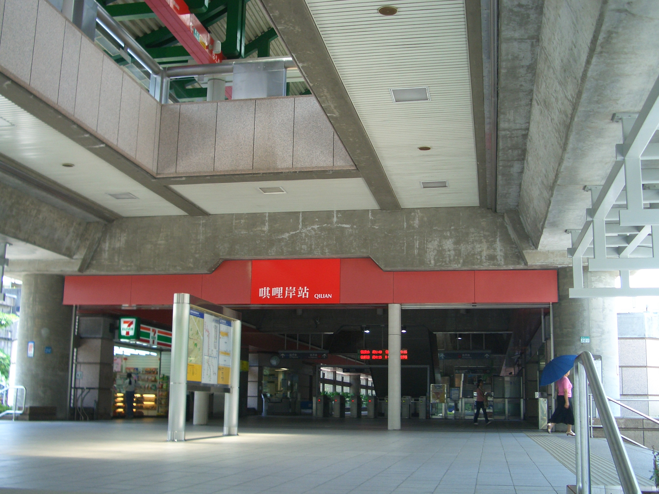 Exit 1, Qilian Station, Taipei Metro.